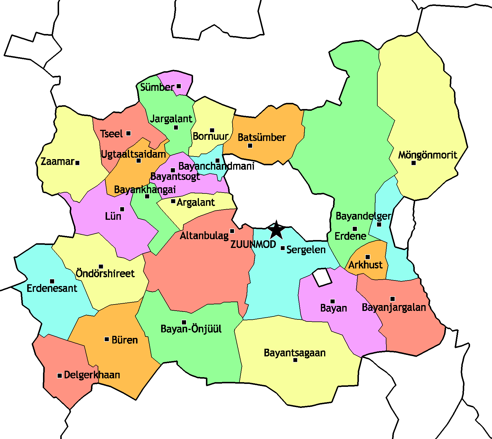 Map of the Töv aimag with the sums